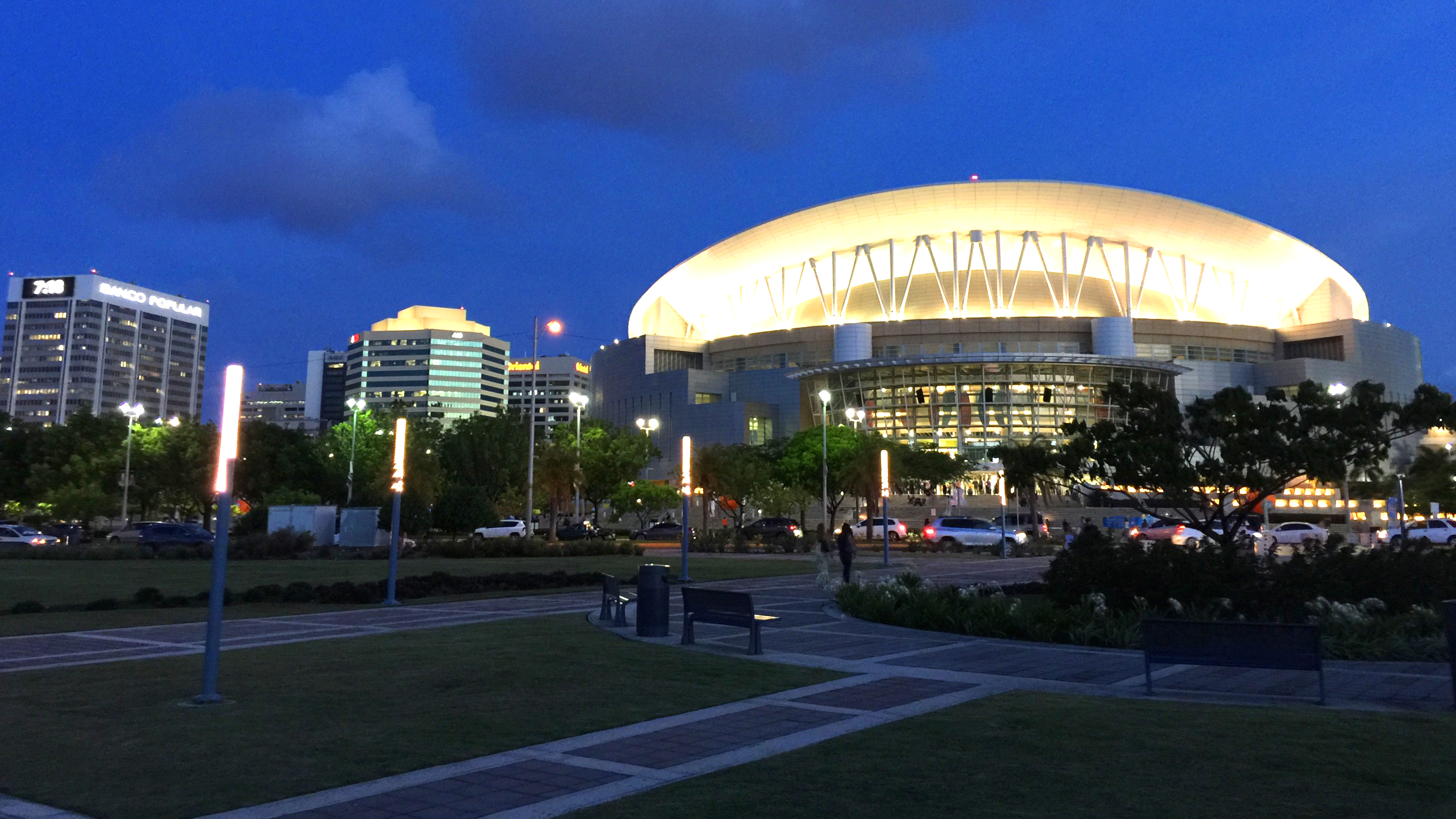 The Coliseum is ranked 8th on the Top 50 Arena Venues of the world and second of the West Hemisphere. (2011)